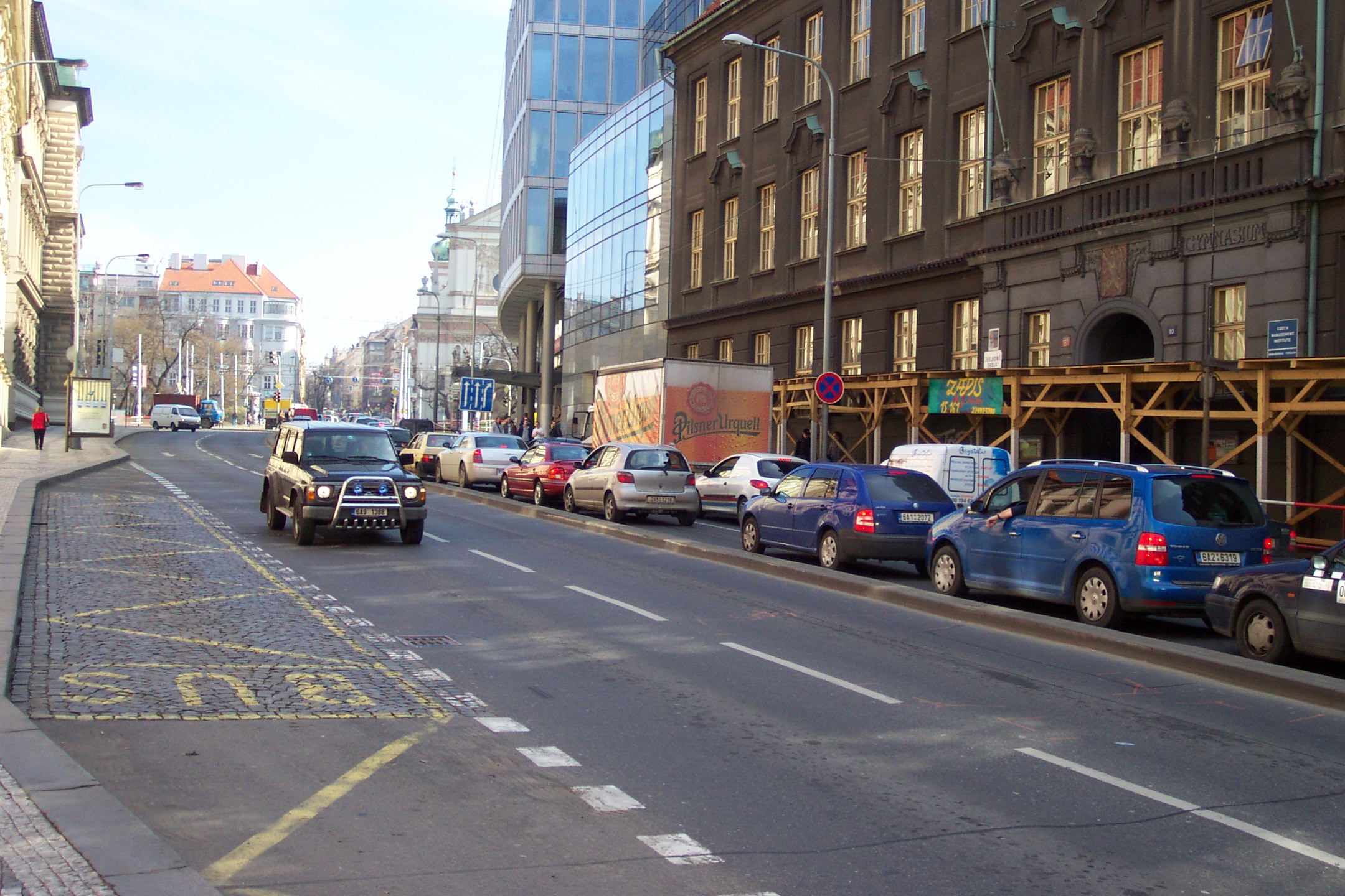 Traffic jam in Praha-Nové Město